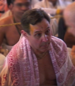 Alfred Ford (aka Ambarisha Das) at ISKCON Tirupati temple Inauguration Festival.